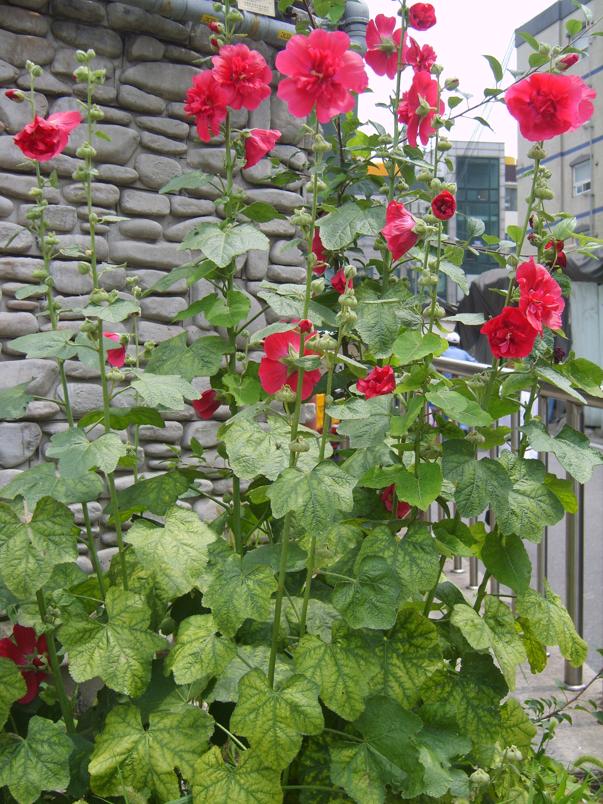 Hibiscus mutabilis